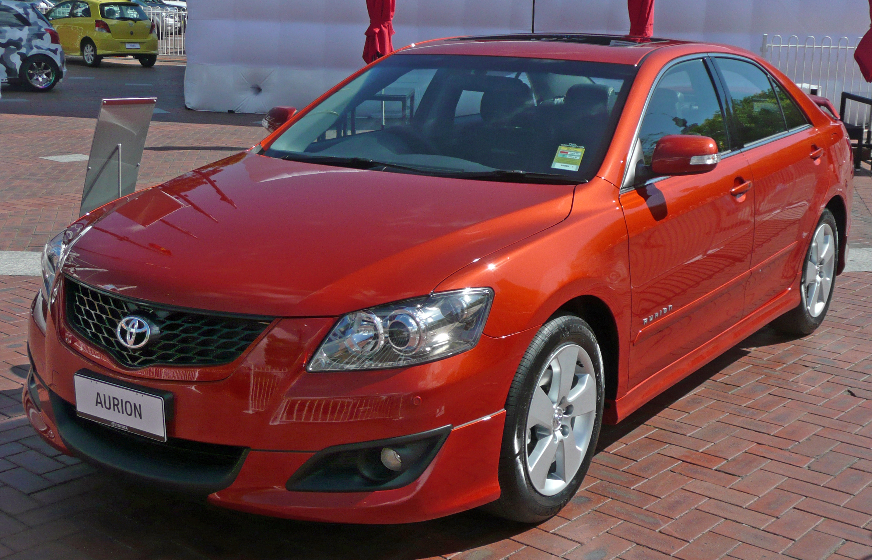 2008 Toyota Aurion (GSV40R) Sportivo ZR6 sedan. Photographed at the 2008 Australian International Motor Show, Sydney, New South Wales, Australia.